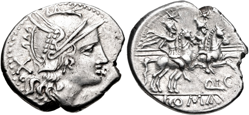 Q. Lutatius Catulus or Cerco 206-200 BC. AR Denarius (21mm, 4.56 g, 6h). Uncertain mint. Helmeted head of Roma right; X behind / The Dioscuri, each holding spear, on horseback right; two stars above, QLC below. Crawford 125/1; Sydenham 274; RBW 576; Lutatia 1. Good VF, irregular edge. From the RBW Collection, purchased from Classical Numismatic Group, July 1993.